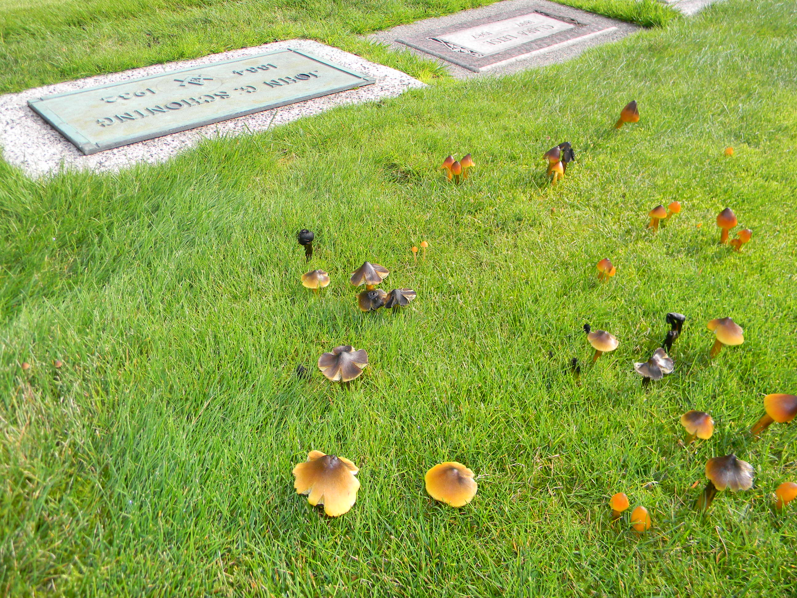 Hygrocybe conica (Schaeff.) P. Kumm. Image location: Acacia Memorial Park, Lake Forest Park, Washington, USA Hundreds of Witch’s Hats, on Halloween, in a Cemetery! Recognized by sight For more information about this, see the observation page at Mushroom Observer.